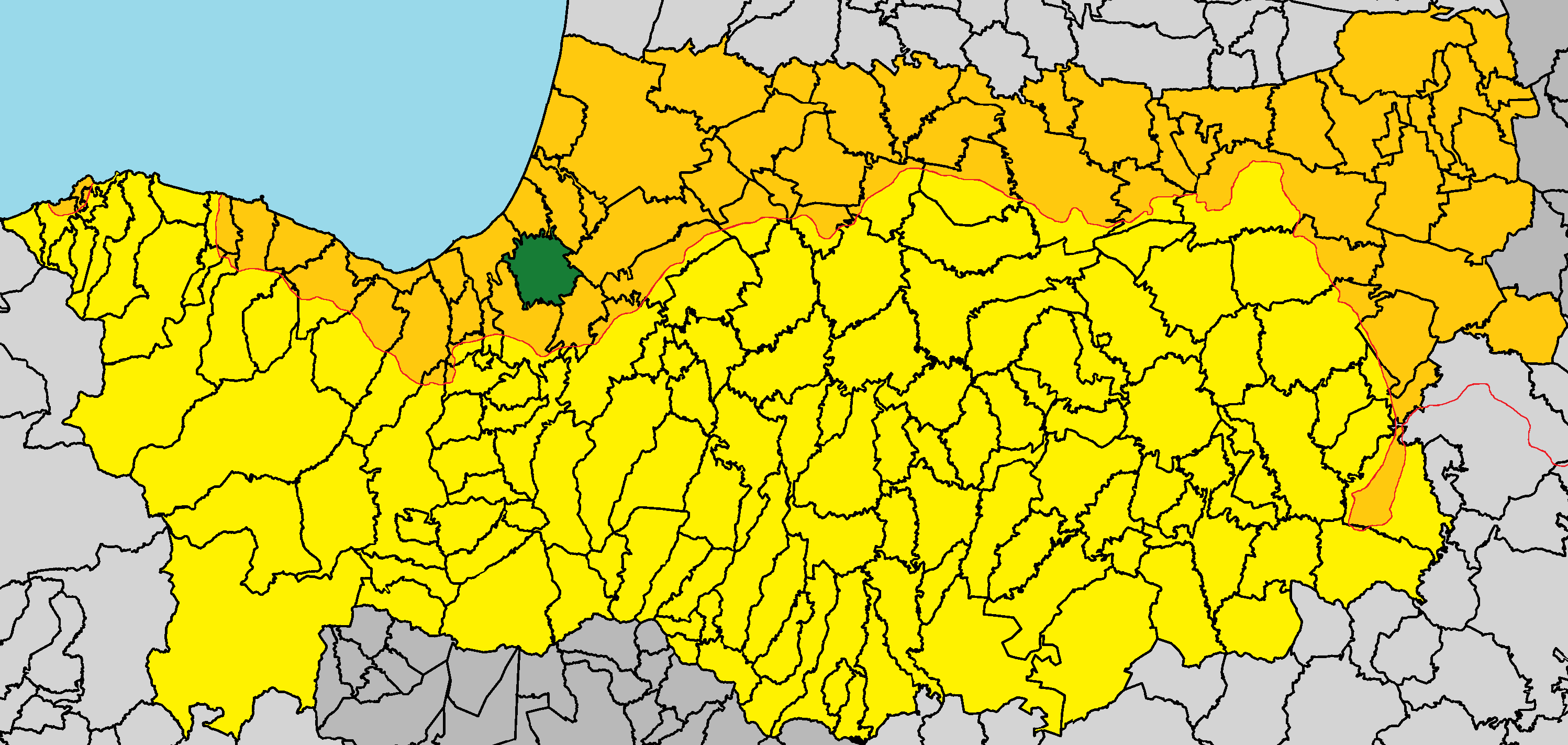 Elia in Nicosia District (de jure).